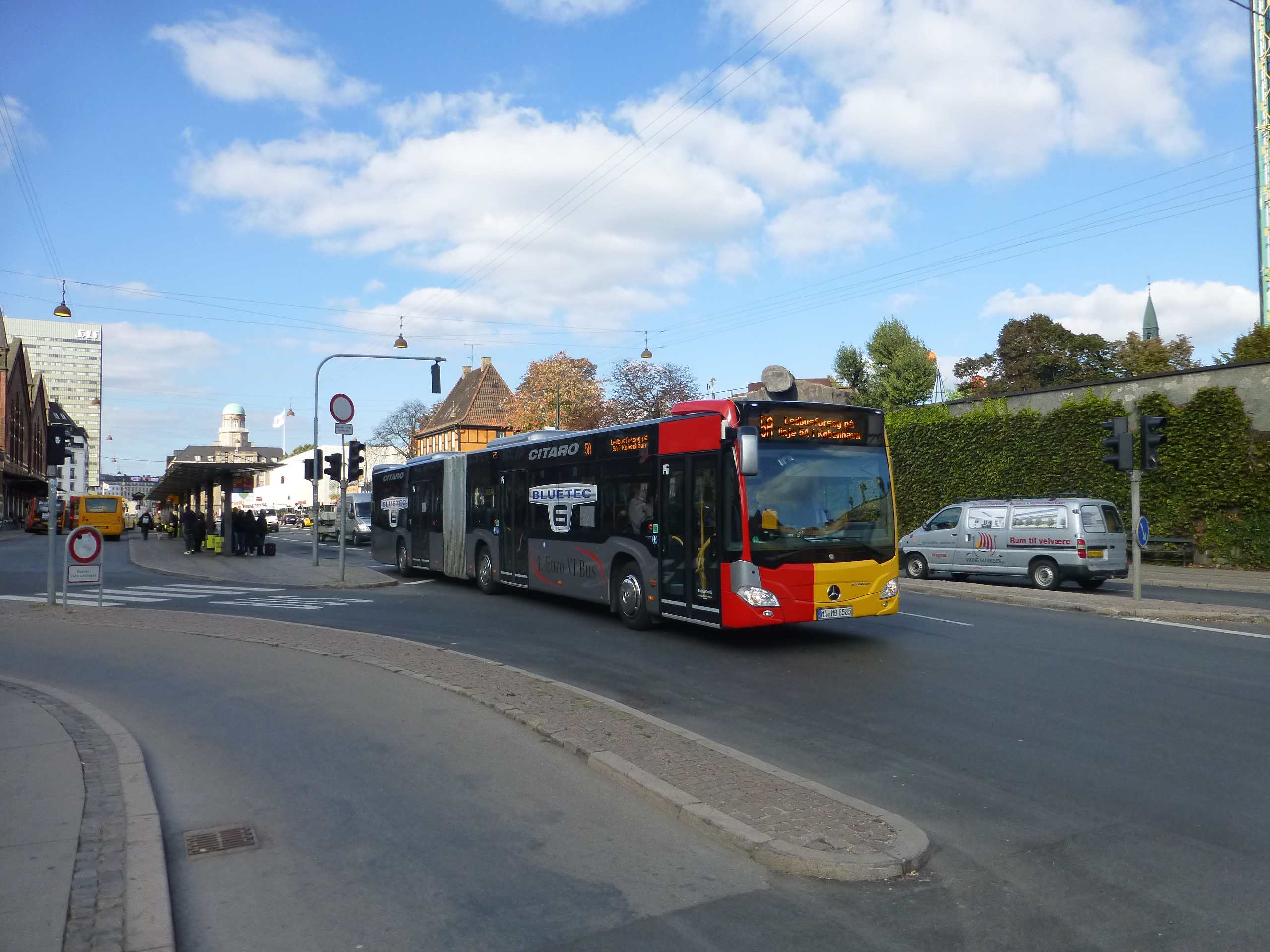 Test with articulated buses on line 5A on Bernstorffsgade in Copenhagen. Mercedes-Benz Citaro.